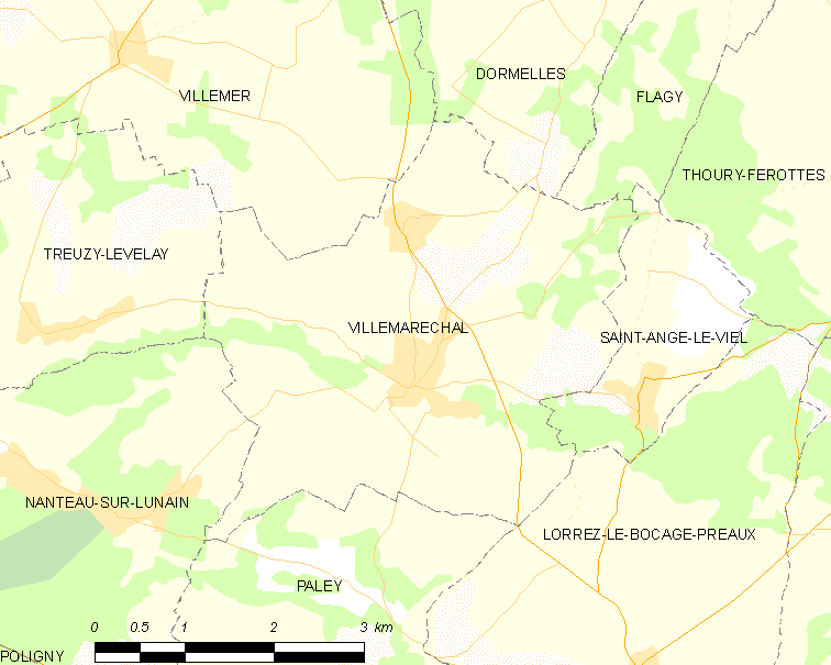 Map of French municipality Villemaréchal